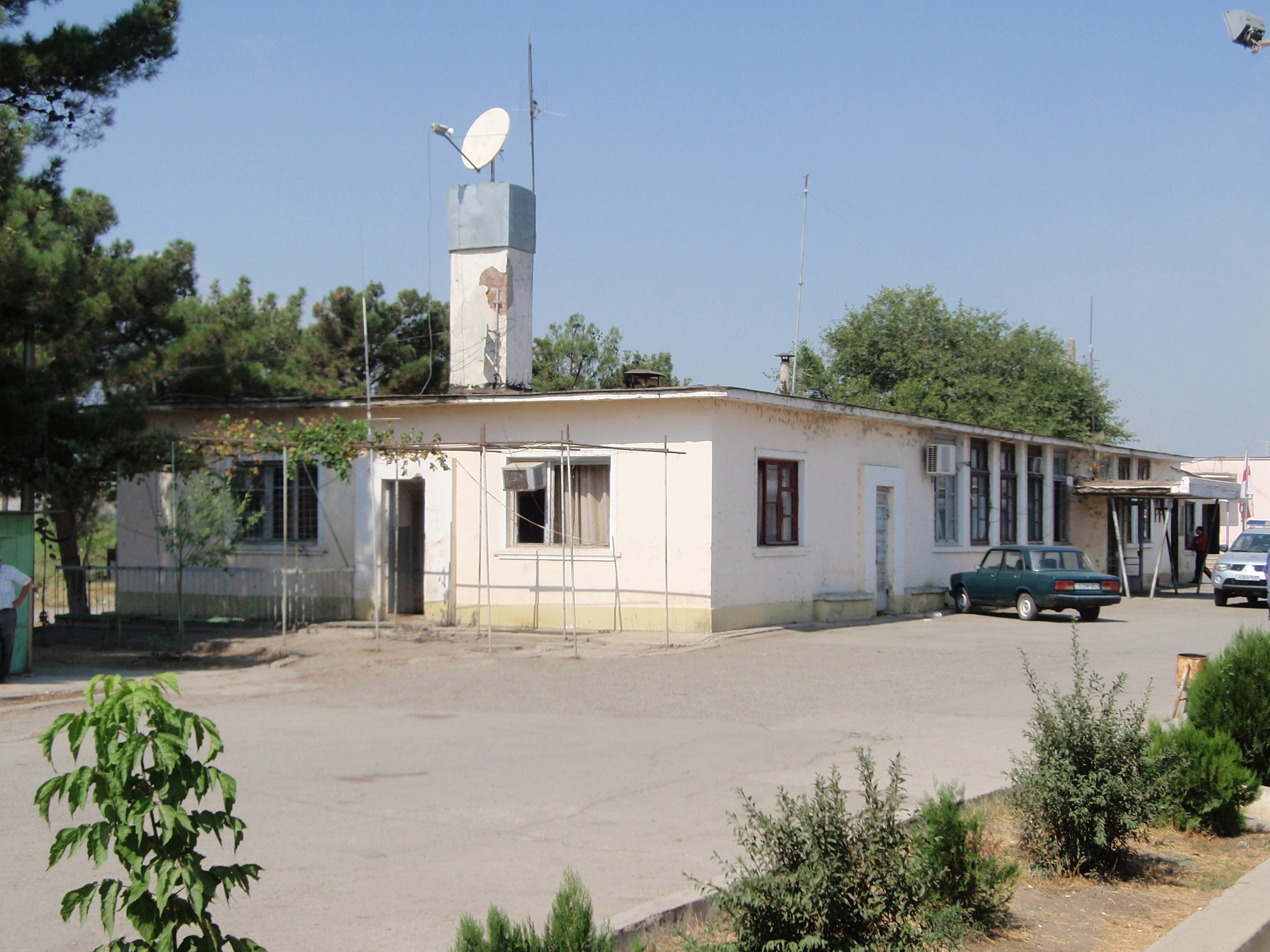 Gordabani Railway Station (Georgia)